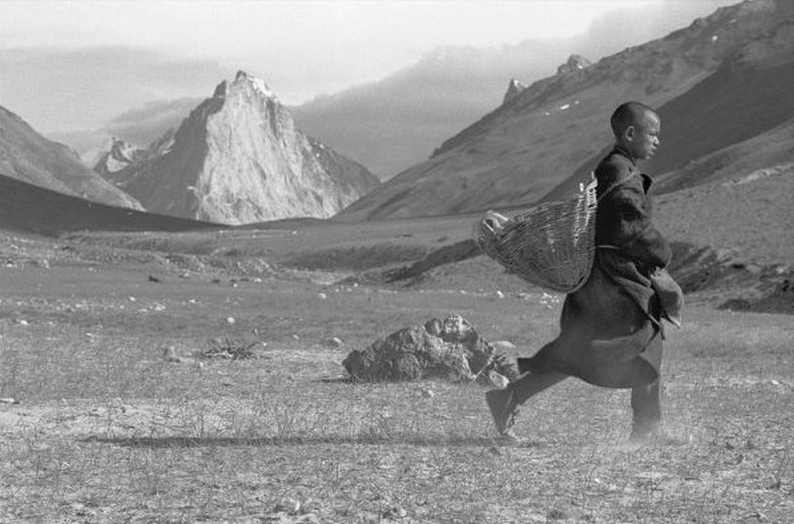 One of the few existing black and white photographs of a Tibetan monk walking through the Tibetan plateau using the lung-gom-pa (lunggompa) technique.